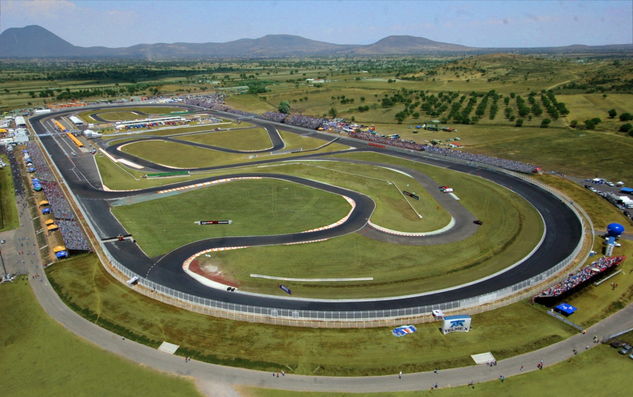 Sky View